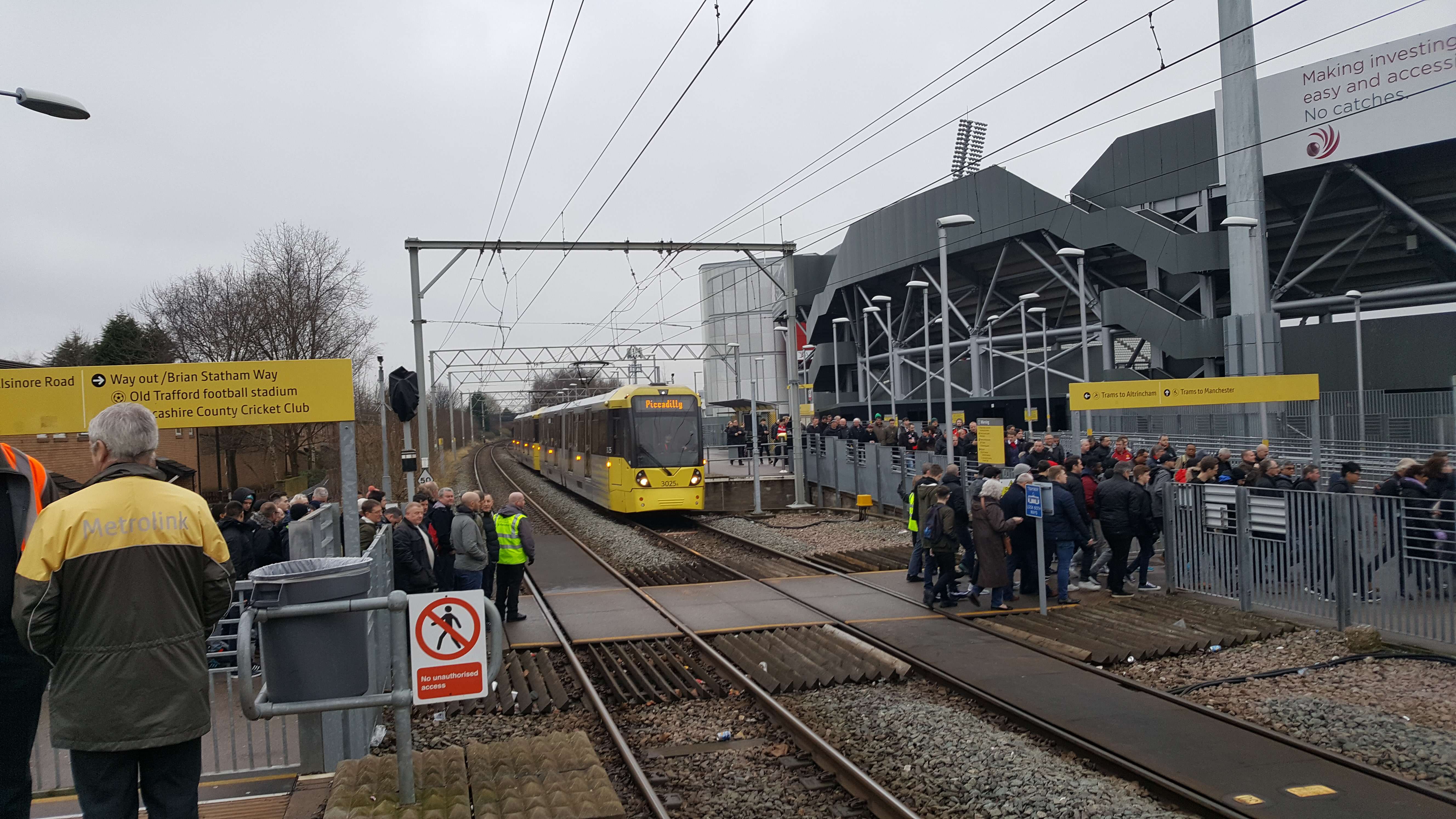 Old Trafford tram station on match day.